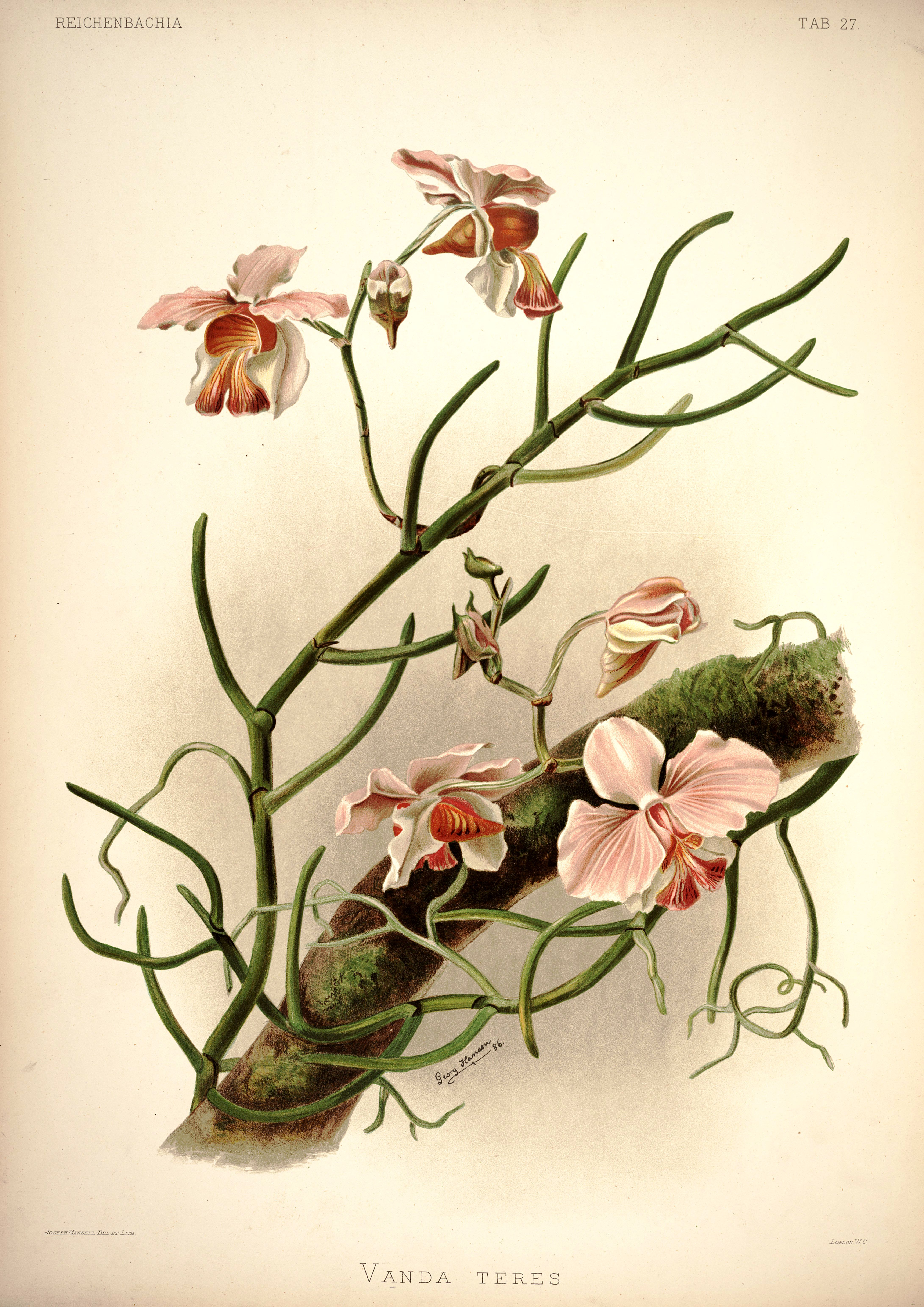 Papilionanthe teres